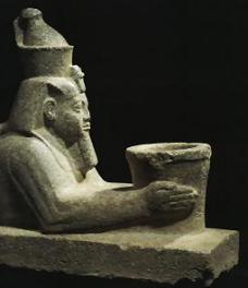 Head of Nubian ruler during the Kingdom of Kush